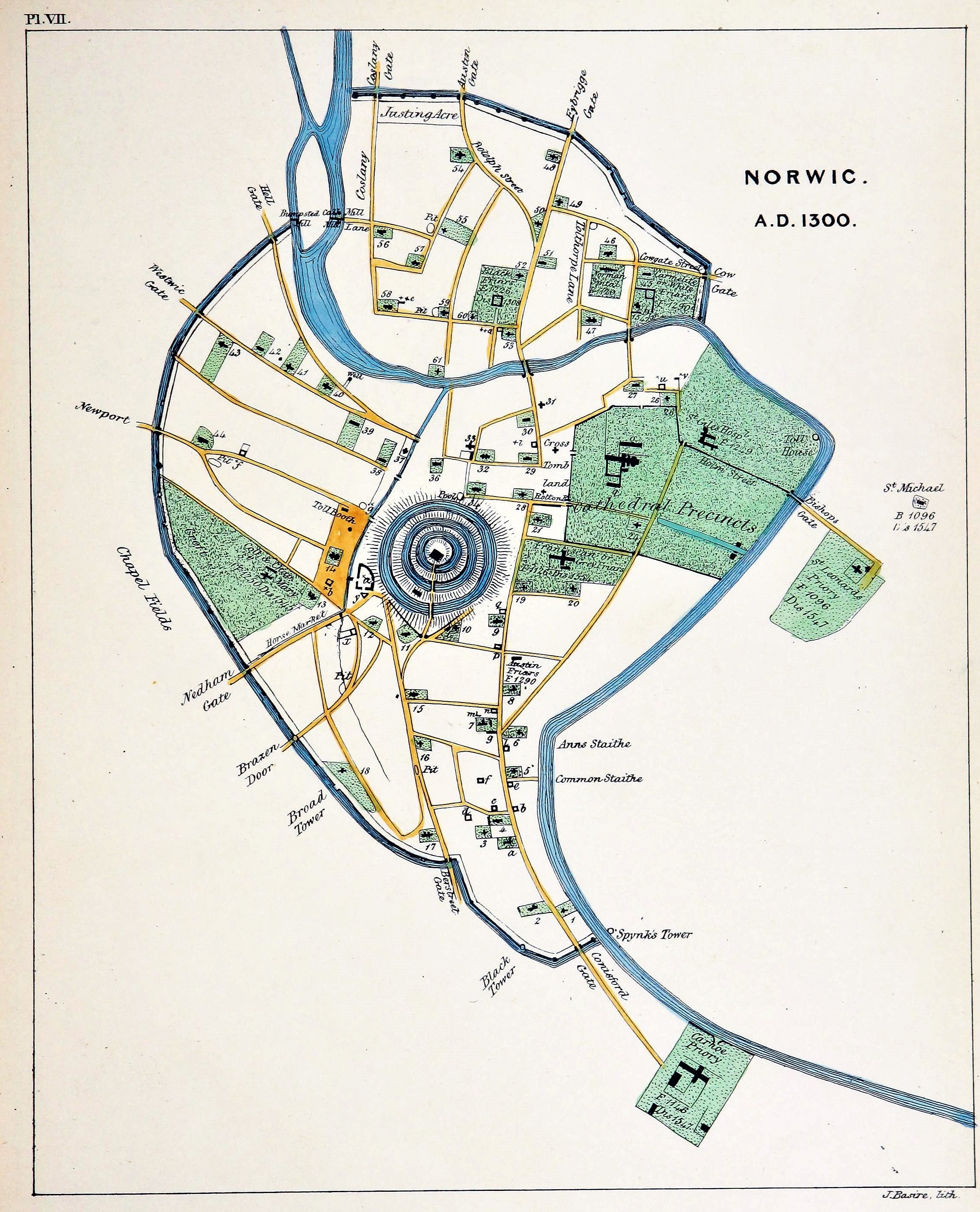 Plate VII from The history and antiquities of Norwich Castle. By ... S. W. Edited by his son [B. B. Woodward]